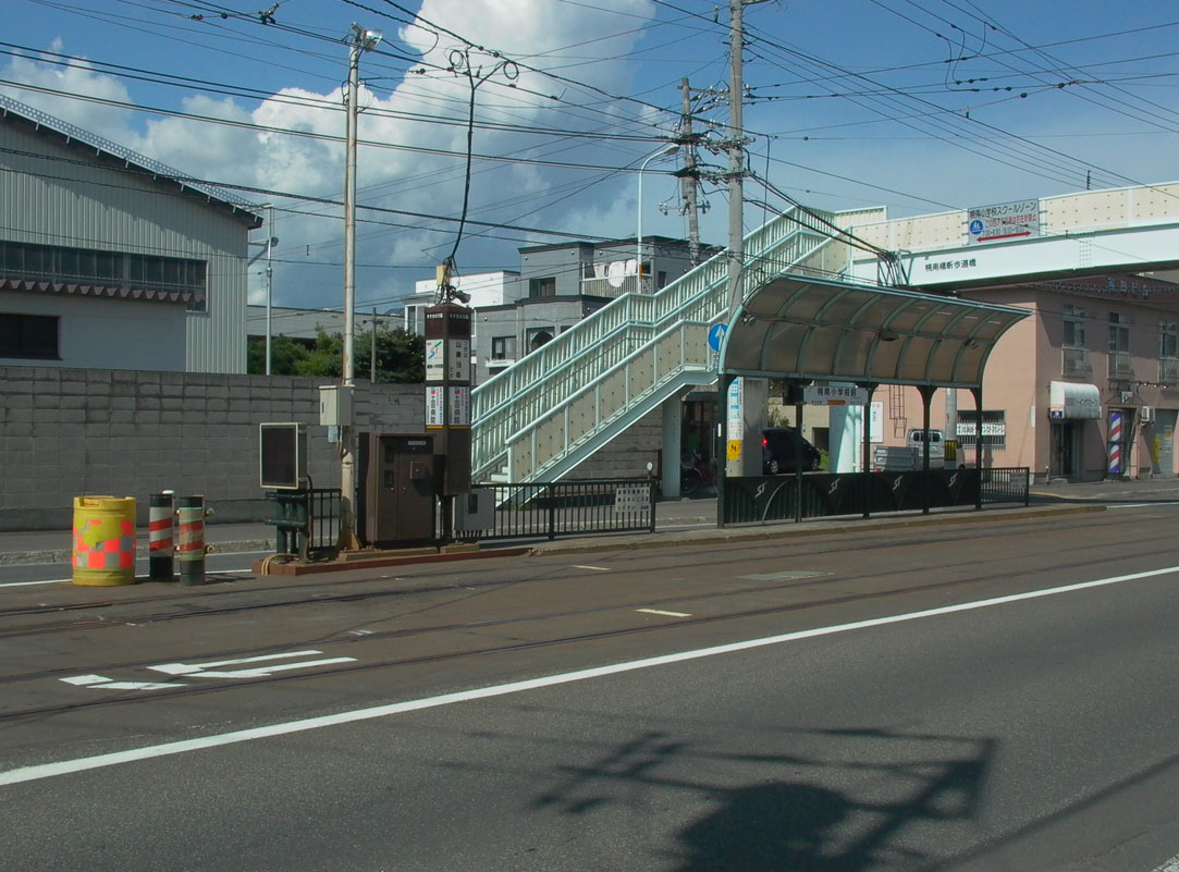 Konan Shogakko-mae station Sapporo, Hokkaido, Japan